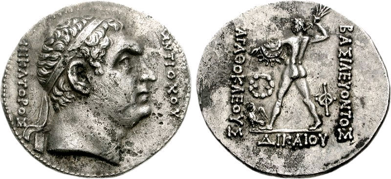 Agathokles commemorative coin for Diodotus I in the name of Antiochos II